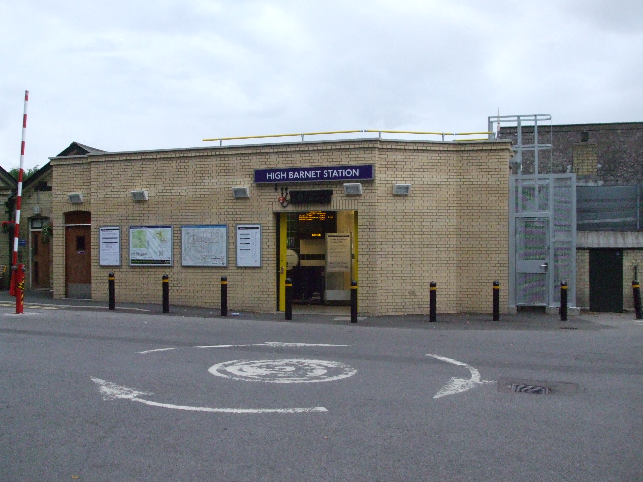 High Barnet tube station newly opened southern entrance